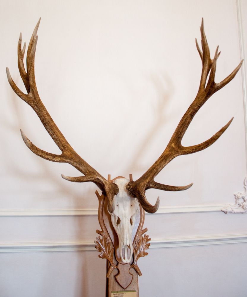 Lenti_-_Riegel Stag, location - Lenti (Zala county); hunter - Paul Riegel; weight 12,80 kg; number of tine ends - odd 20 points (10/8); CIC points - 252,98 IPlabel QS:Len,"Lenti_-_Riegel Stag, location - Lenti (Zala county); hunter - Paul Riegel; weight 12,80 kg; number of tine ends - odd 20 points (10/8); CIC points - 252,98 IP" label QS:Lhu,"Lenti gímbika v. Riegel-bika, Lenti, Zala megye, Paul Riegel, tömeg - 12,80 kg, ágak száma - páratlan 20 (10/8), CIC pontszám 252,98 IP"